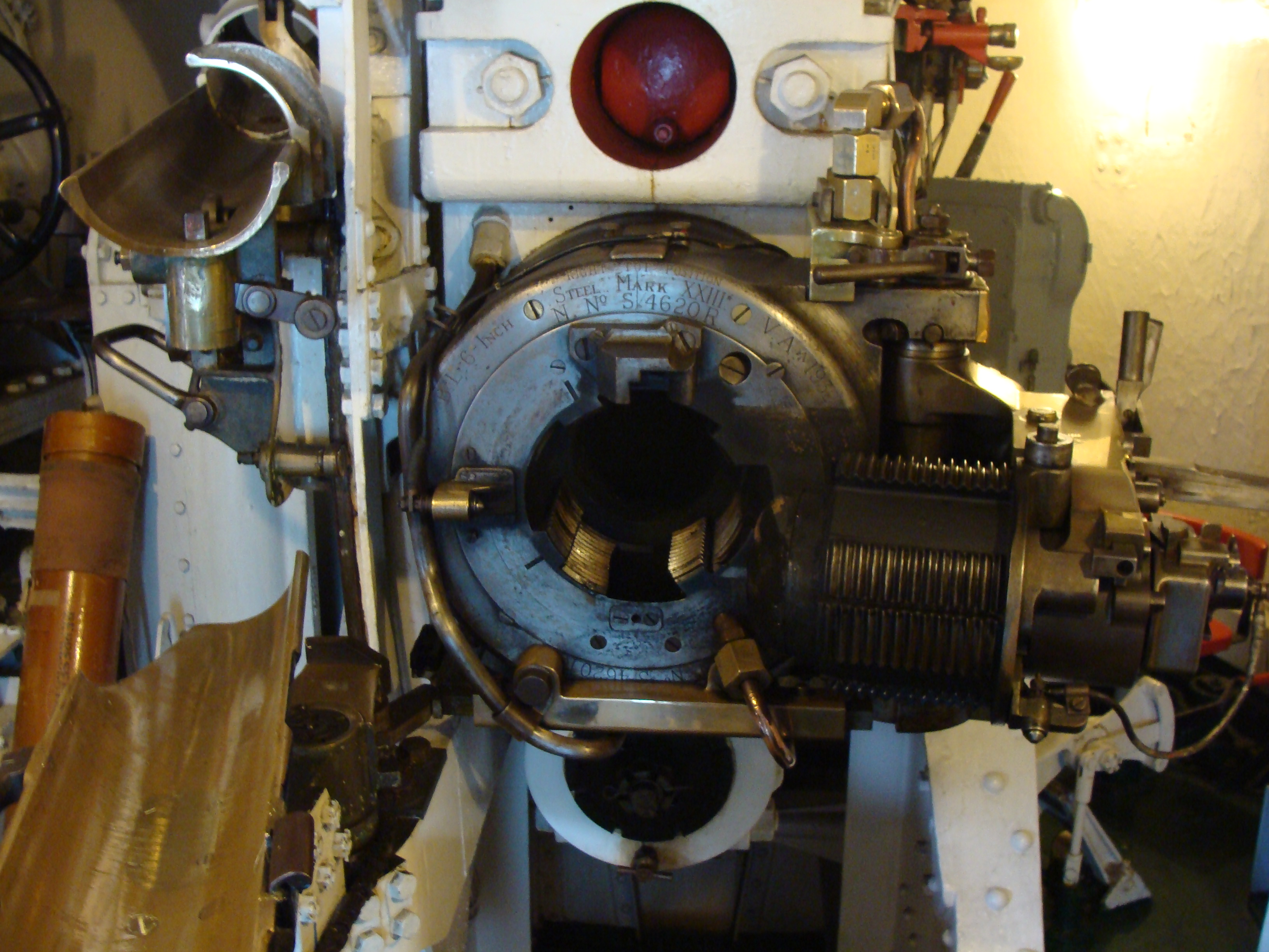 Photograph of open breech of BL 6 inch Mk XXIII gun, on HMS Belfast. See also : File:BL 6 inch Mk XXIII gun breech open HMS Belfast.jpg File:BL 6 inch Mk XXIII gun breech closed HMS Belfast.jpg File:BL 6 inch Mk XXIII gun breech closed HMS Belfast-2.jpg